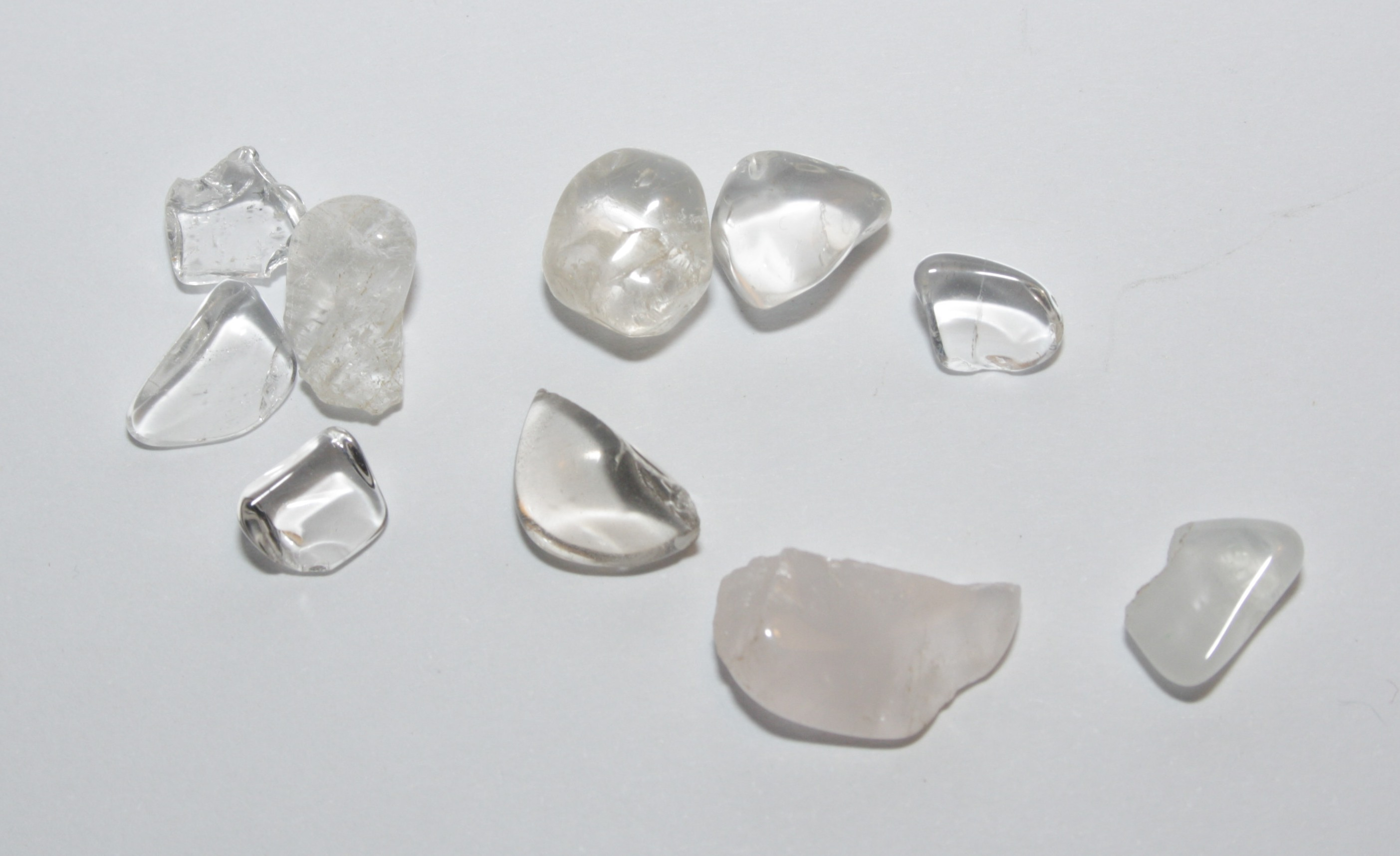 Polished Quartz (rock crystal)